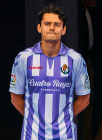 Real Valladolid - Valencia C. F., 38th fixture of the 2018-19 La Liga, May 18, 2019.